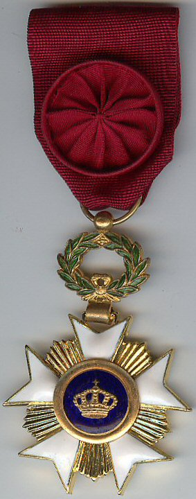 Officer's badge of the Crown Order (Belgium)